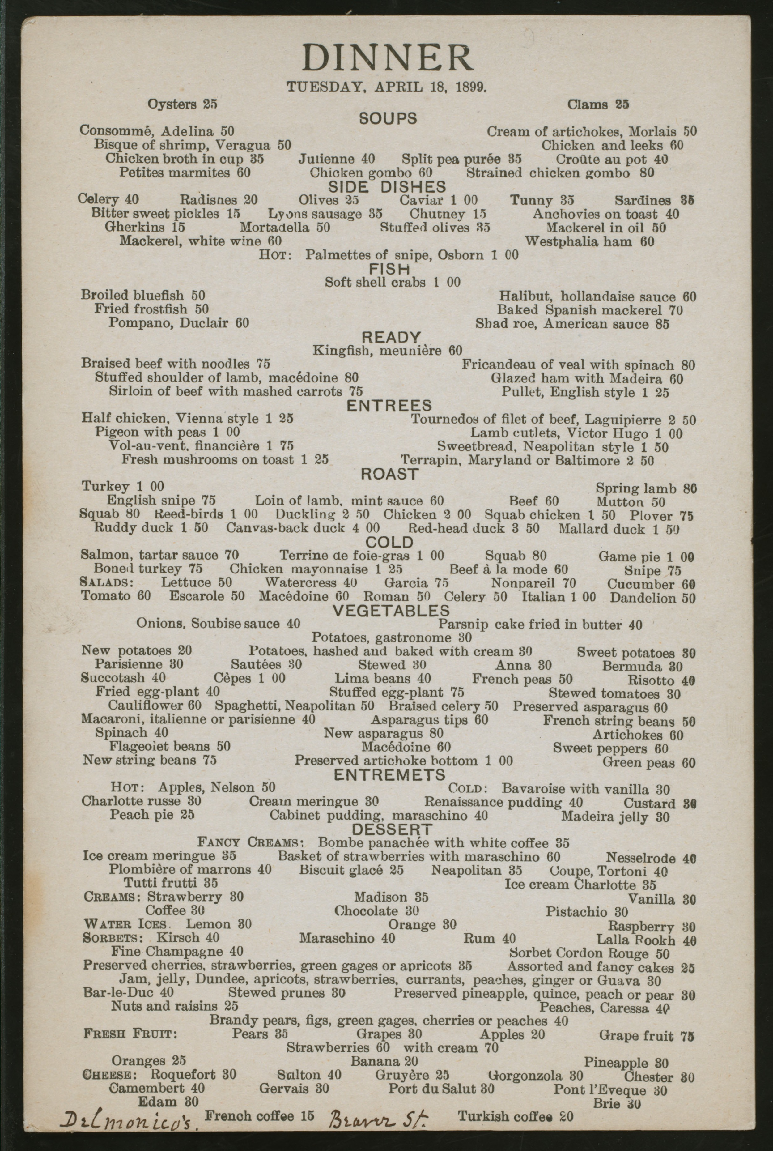 "PRICED MENU, FRENCH ON ONE SIDE, ENGLISH ON THE OTHER; LOCATION OF RESTAURANT HANDWRITTEN BY FNB;"